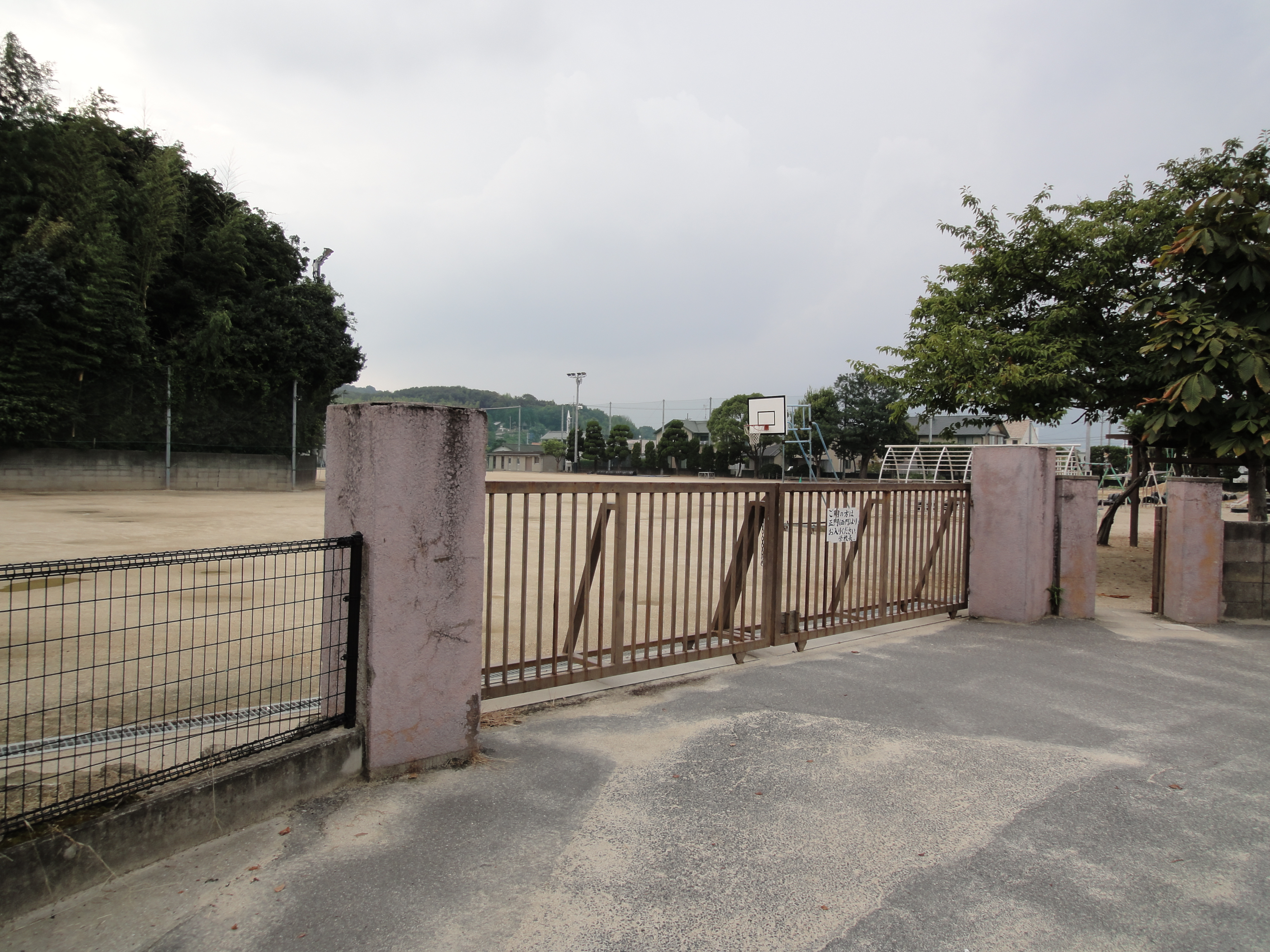 East Gate, Kurashiki City Obie Elementary School. Kasuyama, Kurashiki city, Okayama pref., Japan.